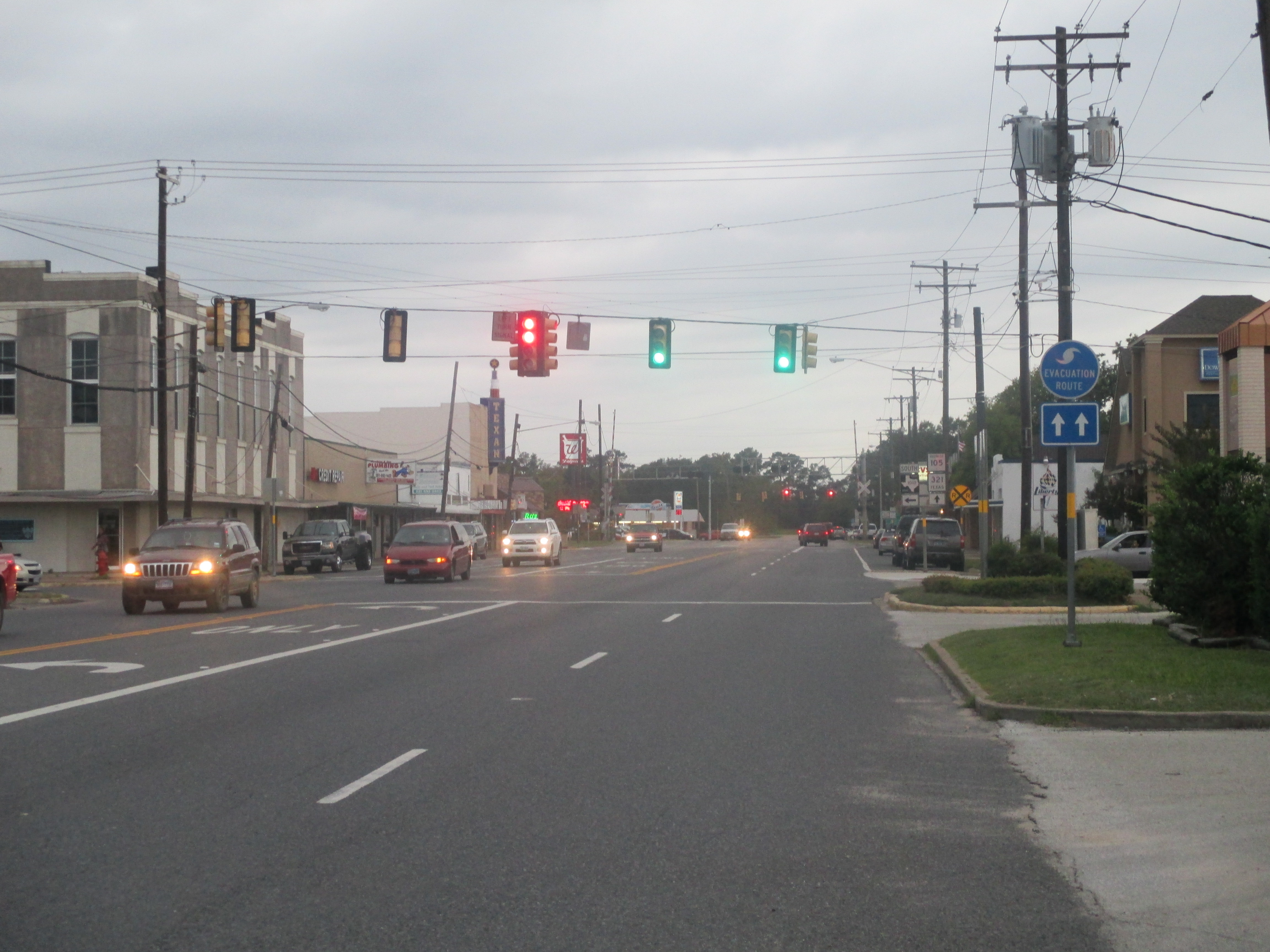 I took photo with Canon camera of part of downtown Cleveland, TX.